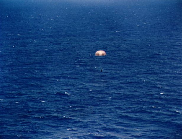 Mercury-Atlas 9 "Faith 7" spacecraft splashdown in the Pacific Ocean; The Mercury-Atlas 9 "Faith 7" spacecraft, with Astronaut L. Gordon Cooper Jr. aboard, nears splashdown in the Pacific Ocean to conclude a 22 orbit mission lasting 34 hours and 20.5 minutes. The capsules parachute is fully deployed in this view.